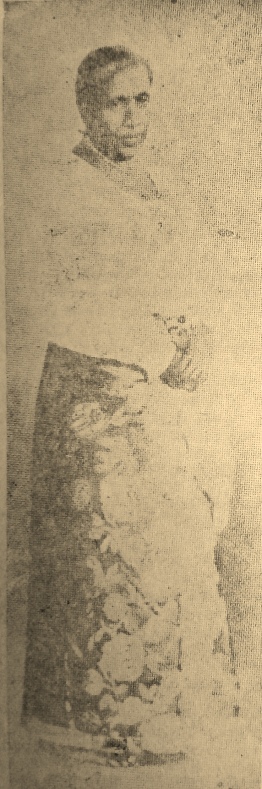 Photograph of Ceylonese philanthropist,businesswoman and founder of the Visakha Vidyalaya Colombo - Celestina Dias aka Mrs. Jeremias Dias (1858–1933).